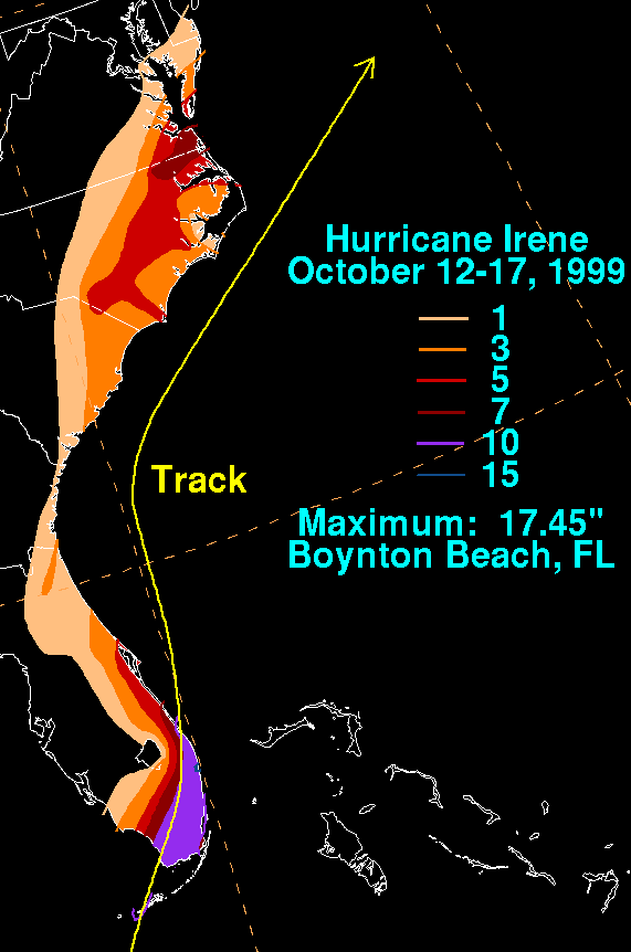 Rainfall produced by Hurricane Irene during October 1999.